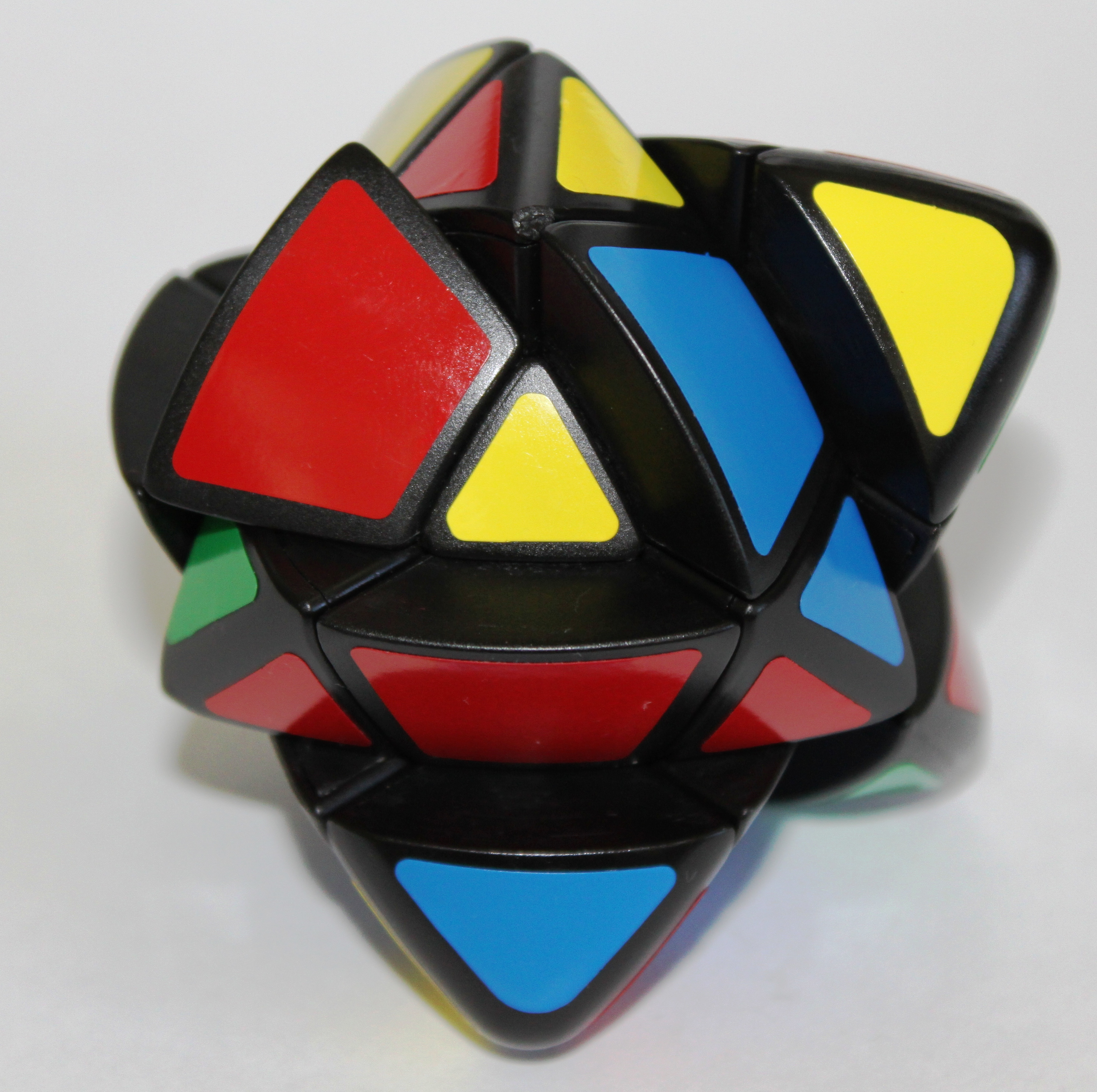 This is a photo of a "Rubiks cube"-like sequential move puzzle.